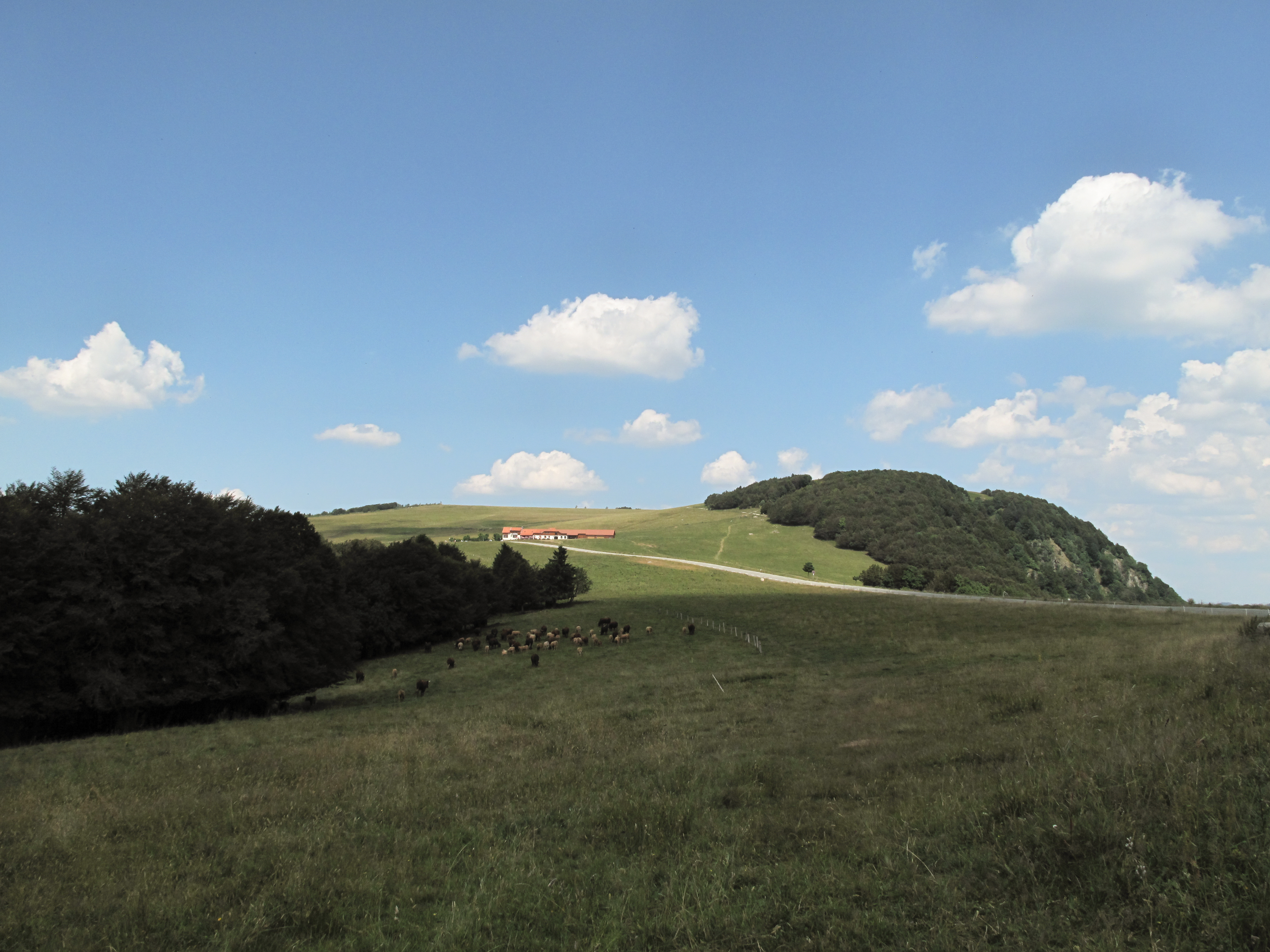 between Lepuix and Ballon d'Alsace, road panorama